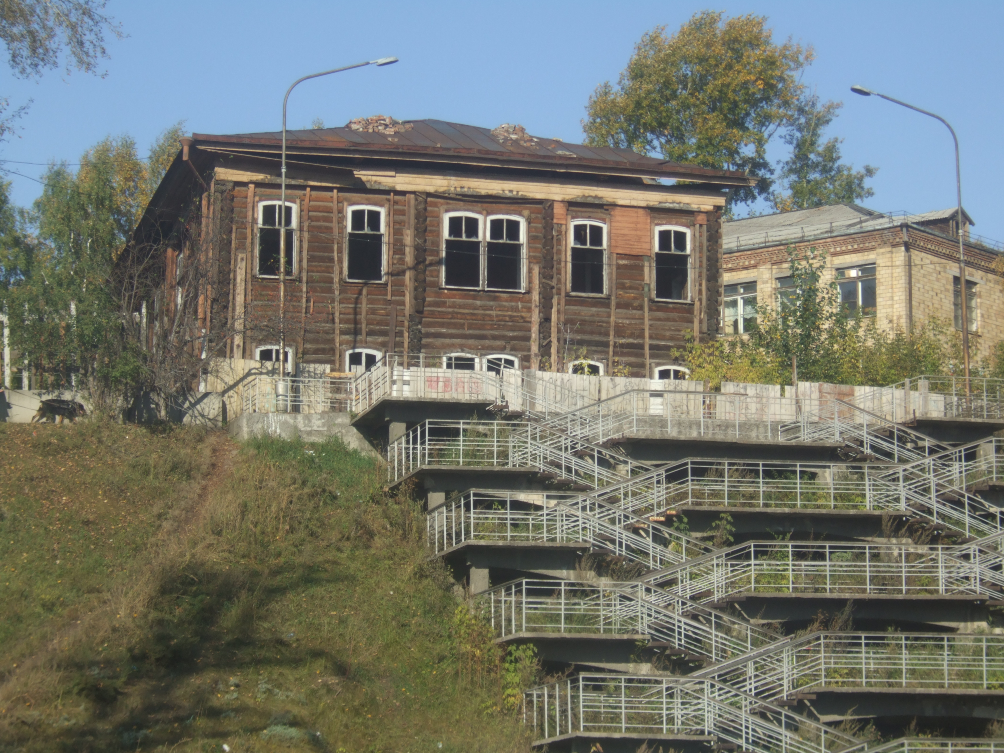 The Yudin's library, constructed in the end of the 19th century. It was prepared for restoration in 2005 by the private company but then the works were suddenly stopped due to the licencing problems.